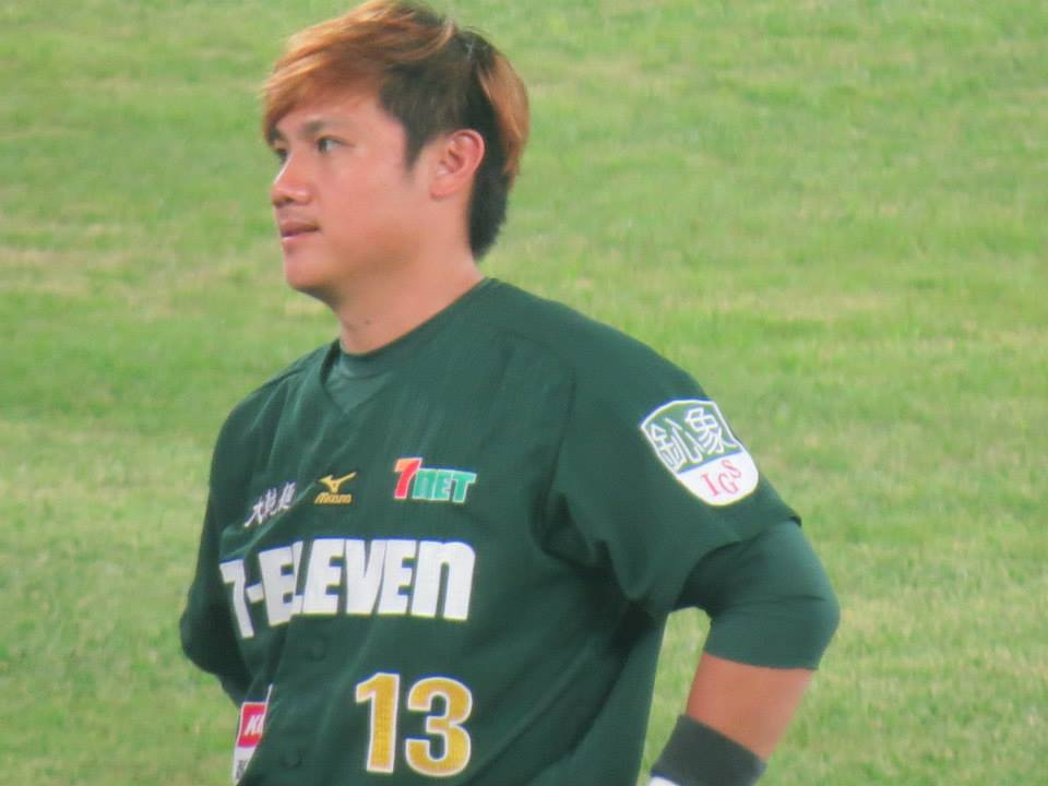 Yung-Chi Chen at a baseball game of Kaohsiung of Taiwan in October 30, 2013.